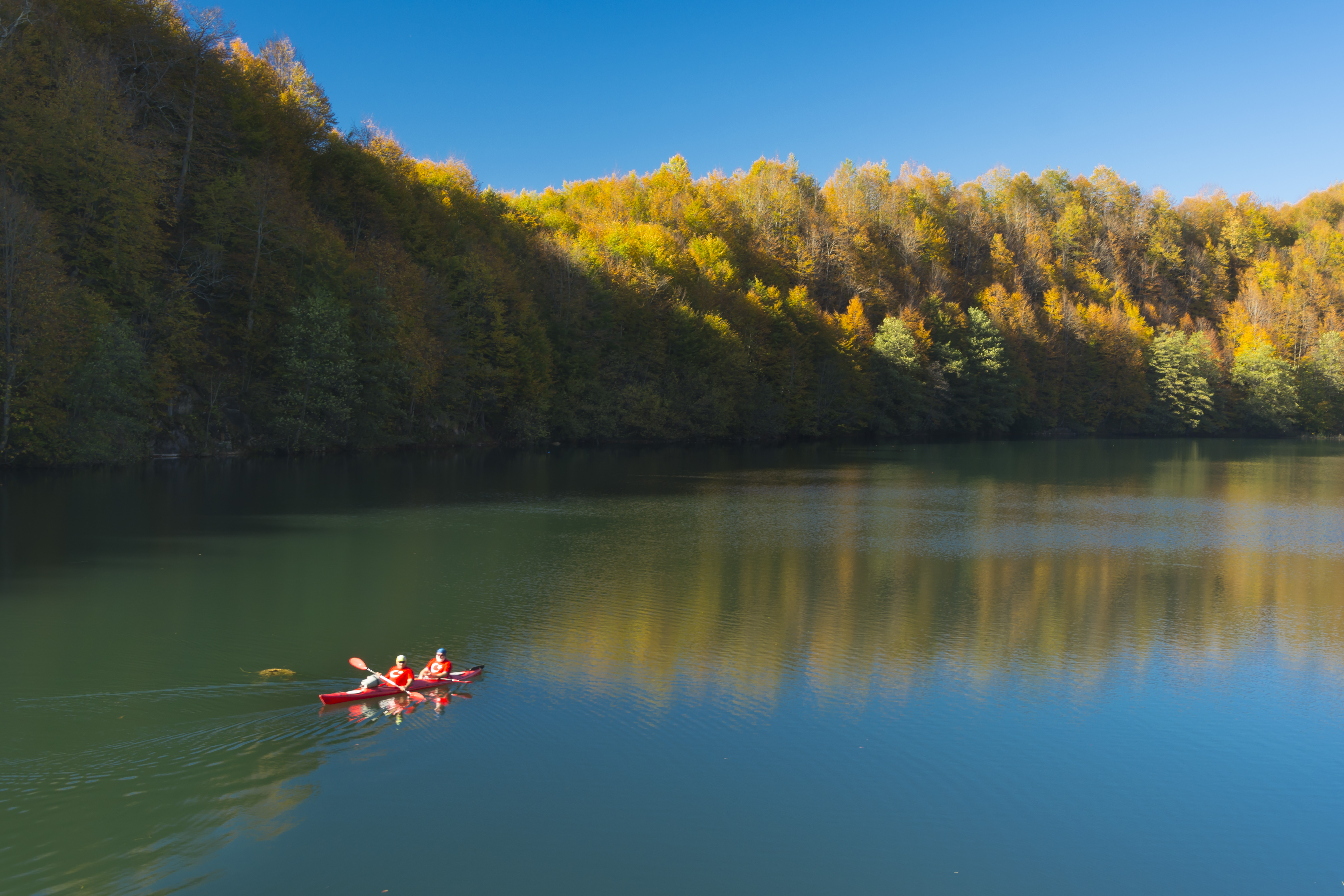 Category:Ulugöl Nature Park The area with a size of 26.5 hectares is the Nature Park. It has a high landscape value due to its natural structure. Especially in the fall season, those who see the color harmony caused by the yellowing of the leaves are fascinated. There are three landslide set lakes in the area; One of the lakes is big and the other one is small lakes covered with reeds. Abant Alas fish live in the big lake.The area is convenient for visitors to do activities such as picnics, trekking, cycling, photographing, plant and wildlife observation.Within the Nature Park, there are walking paths for daily use, masjid, children's playgrounds, picnic tables, camellia, buffet, fountain parking lot. Ulugöl Nature Park welcomes visitors with a forest ecosystem consisting of hornbeam, alder, hazelnut and oak dominated by beech wood. The natural landslide that offers the most important contribution to the area in terms of aquatic life is Ulugöl and Çepekli Lake, which have the character of set lake. On the lake, water lily, water cane, reeds, and duckweed add harmony to the lake.